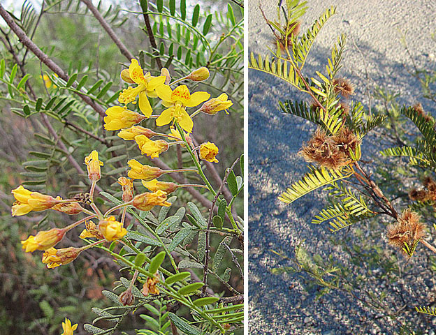 The flowers and furry pods of Jarilla Macho of northwestern Argentina. In context at